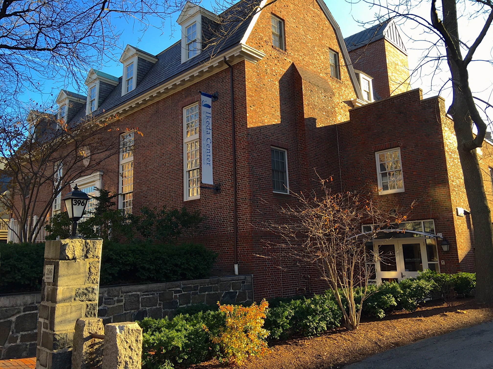 Ikeda Center for Peace, Learning and Dialogue, Harvard Street, Boston USA